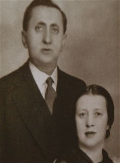 Photograph of Ben Zion and Fanny Hyman, Toronto, circa 1932